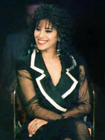 The singer Ofra Haza in a talkshow, around the year 1994.